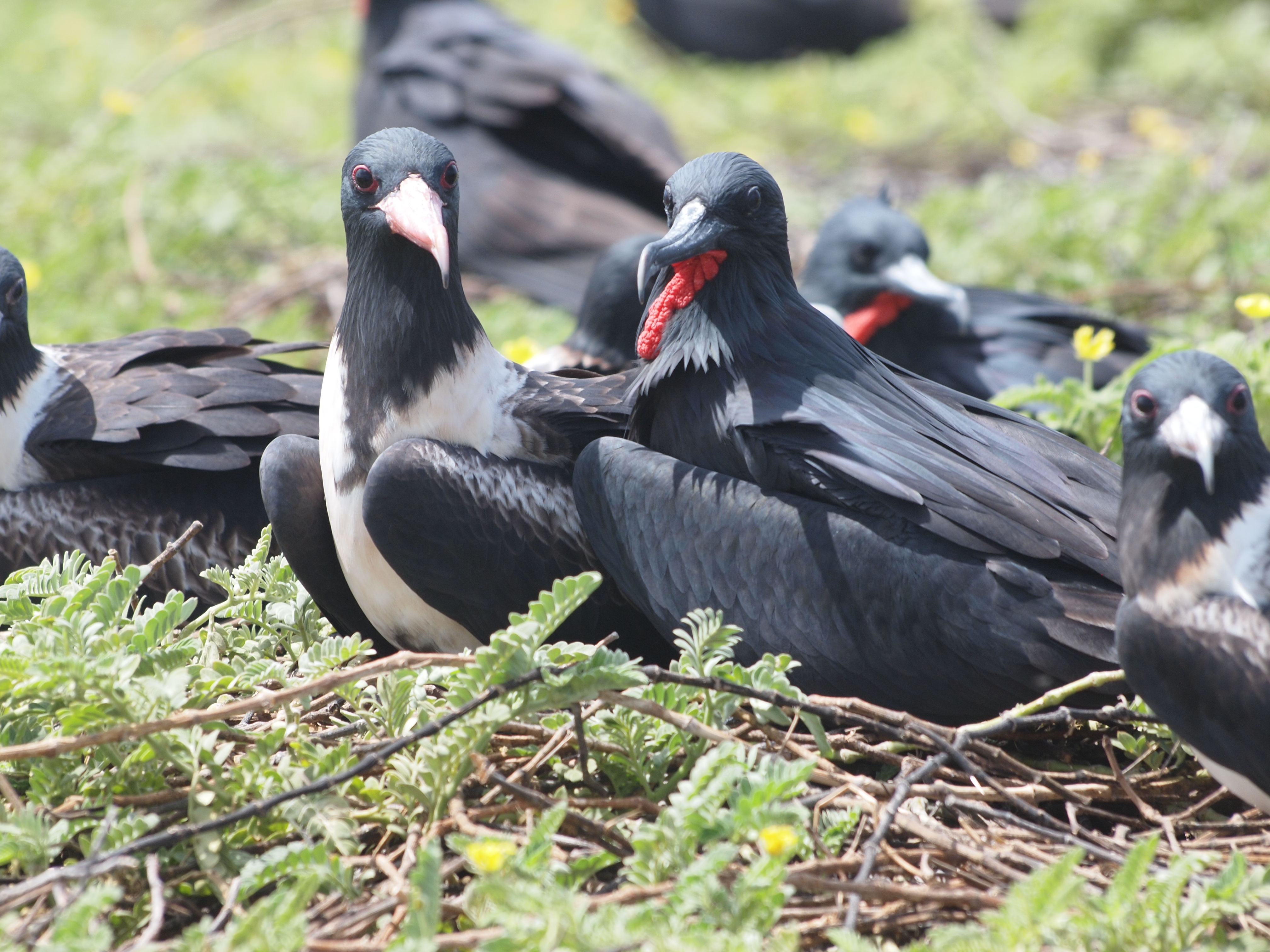 Photo credit: Jared Underwood